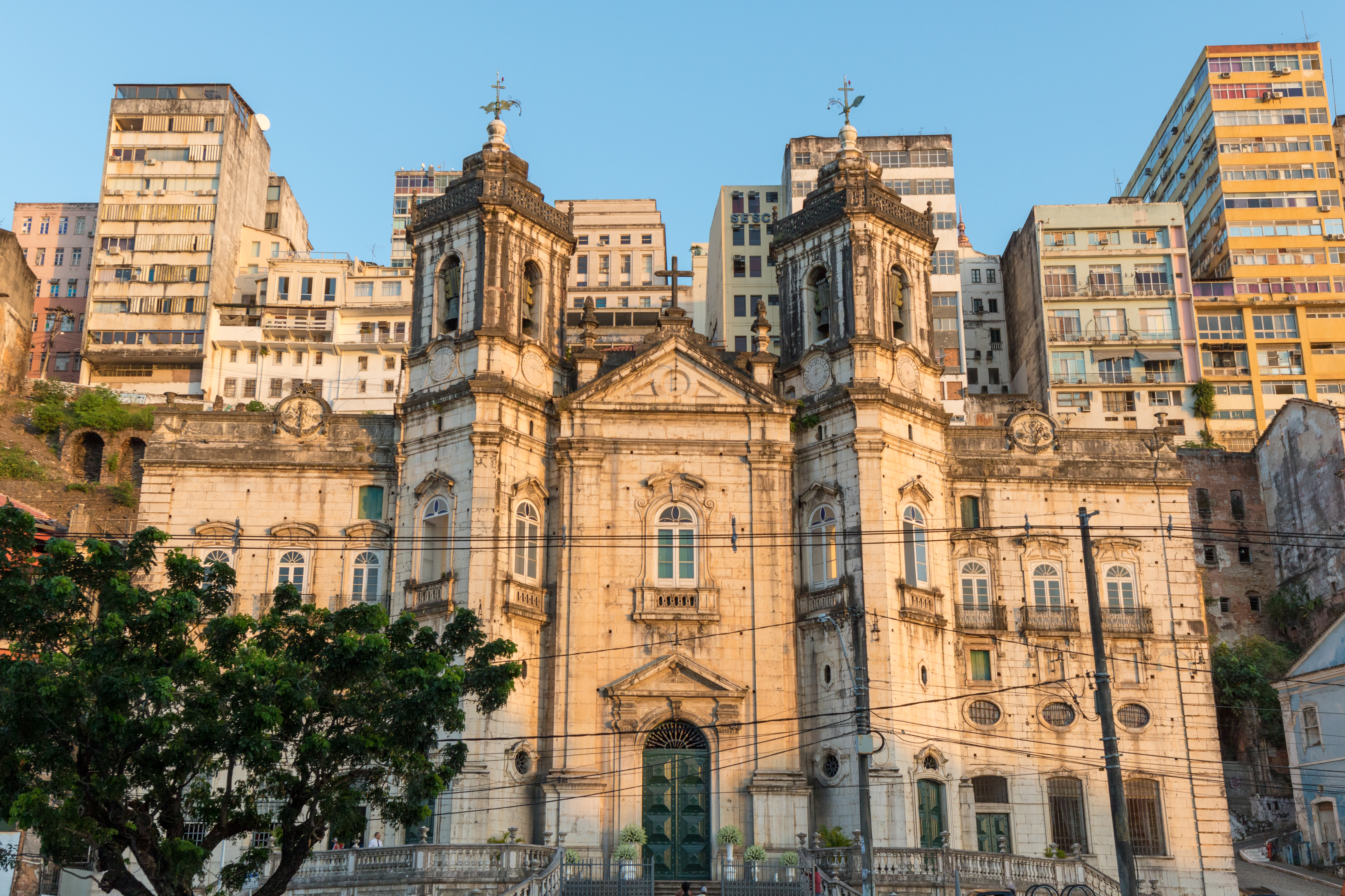 Nossa Senhora da Conceição da Praia Church (Church of Our Lady of the Conception of Praia), Salvador, Bahia, Brazil.